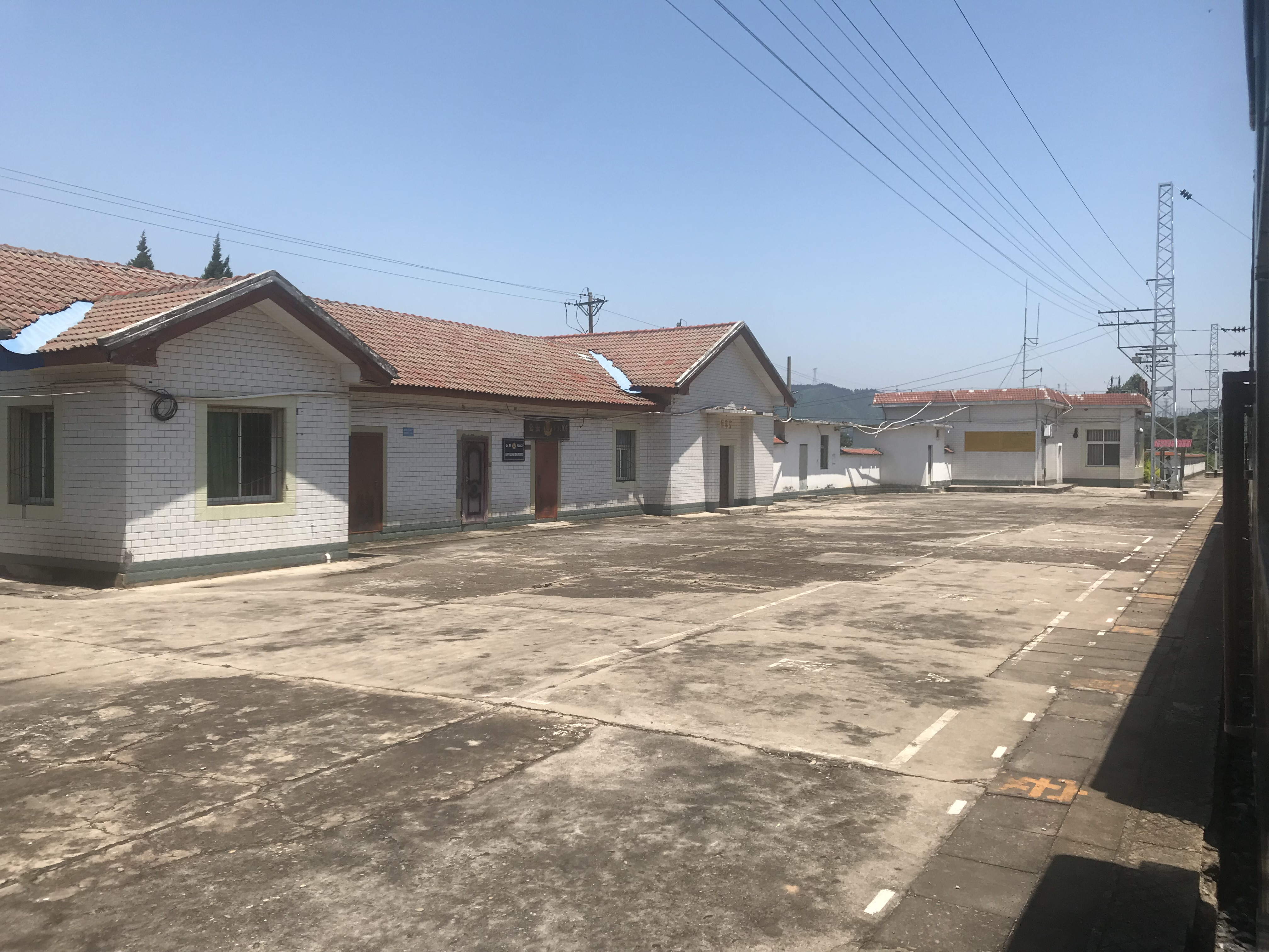 201908 Station Building of Huanglianguan